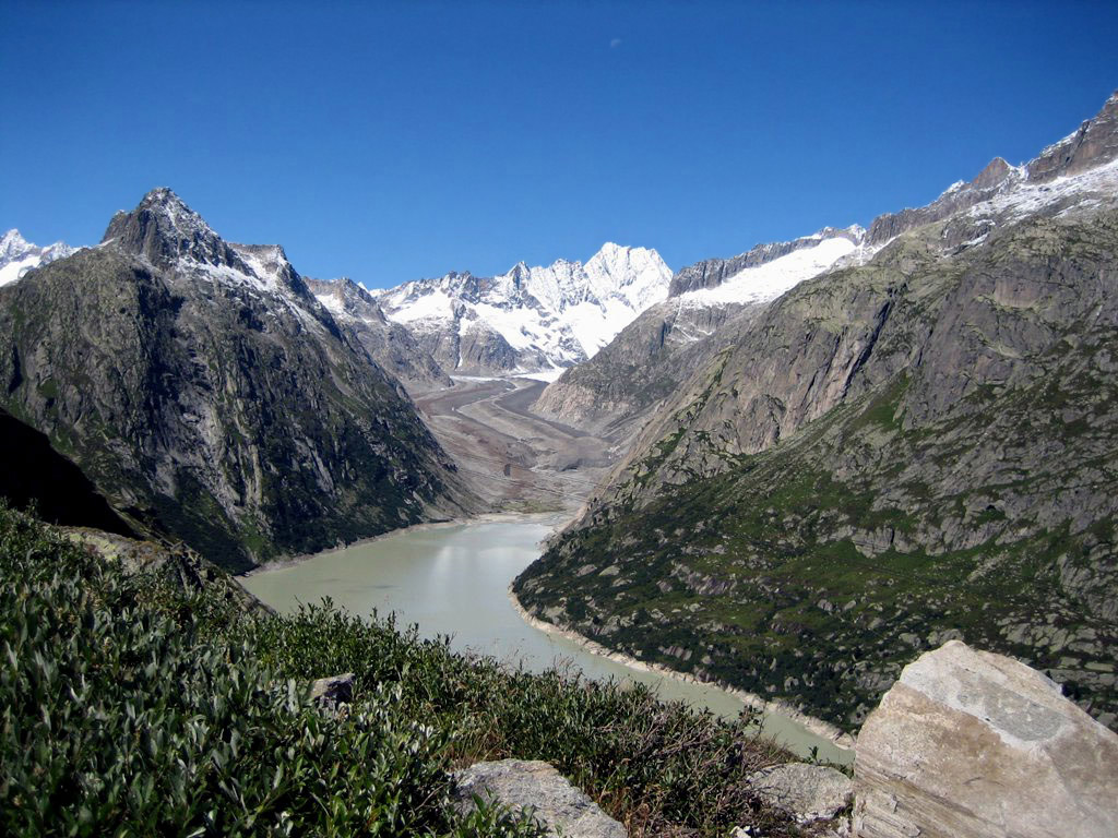 Lake Grimsel and Unteraar Glacier near Grimselpass, Bernese Oberland, Canton of Berne, Switzerland.